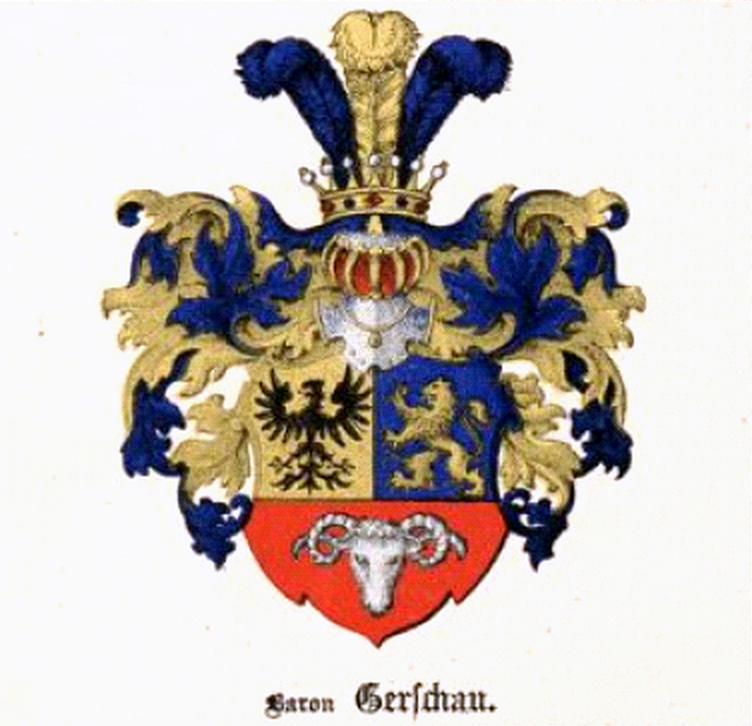 Coat of arms of Baron Gerschau family